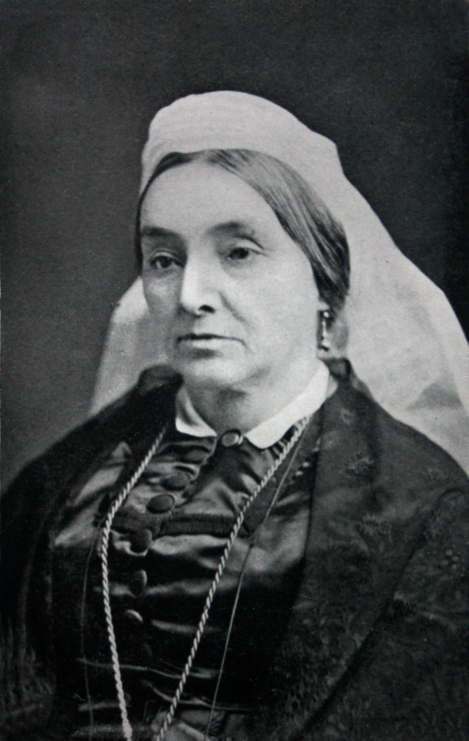 Portrait of Christian Pringle, Leander Starr Jameson's mother, from "The Life of Jameson" by Ian Colvin, Edward Arnold & Co., 1922